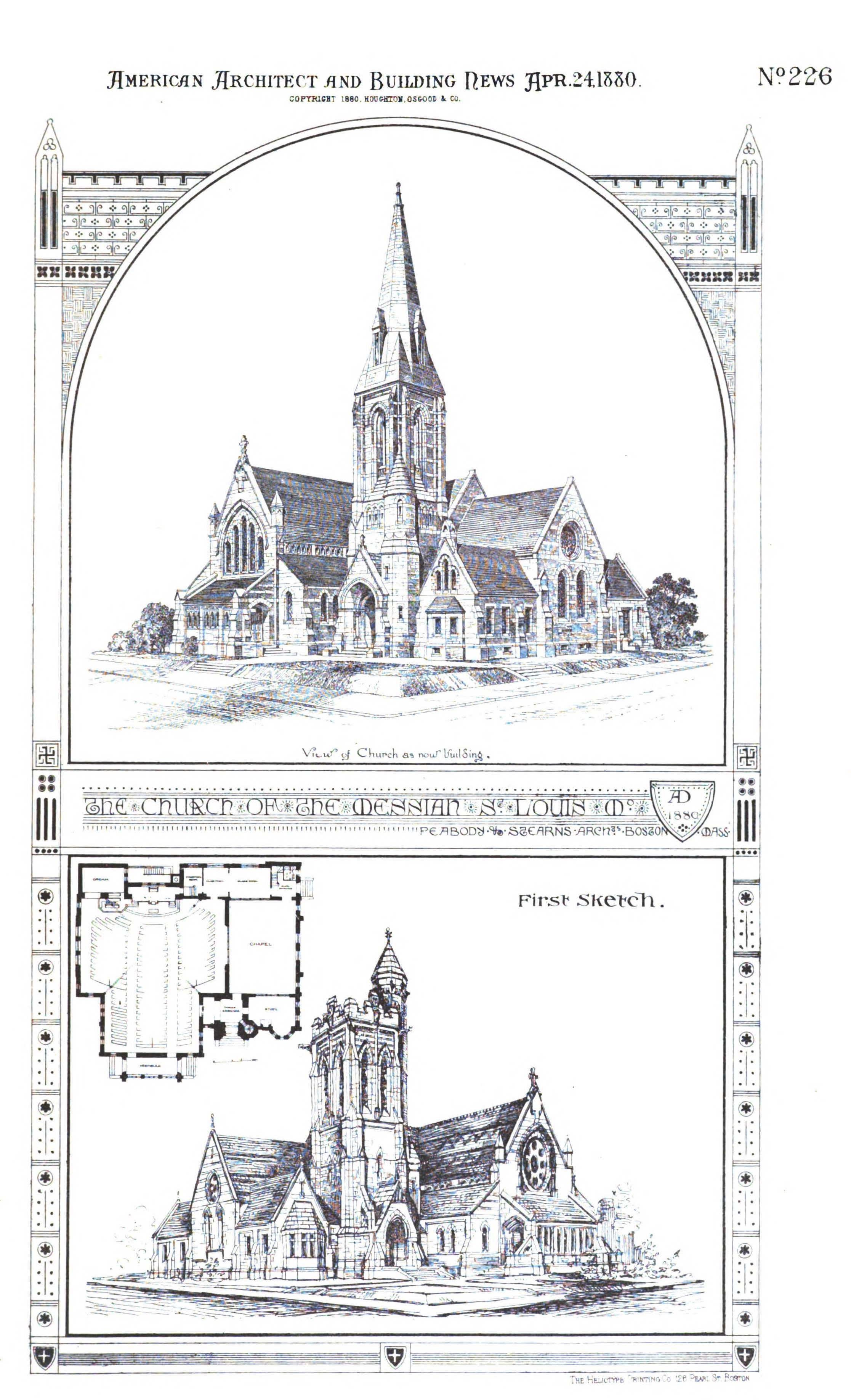 Two sketches, one proposed and one as-built, of the Unitarian Church of the Messiah in St. Louis, Missouri by the architecture firm Peabody and Stearns. It was included as an illustration in American Architect and Building News on April 26, 1880.